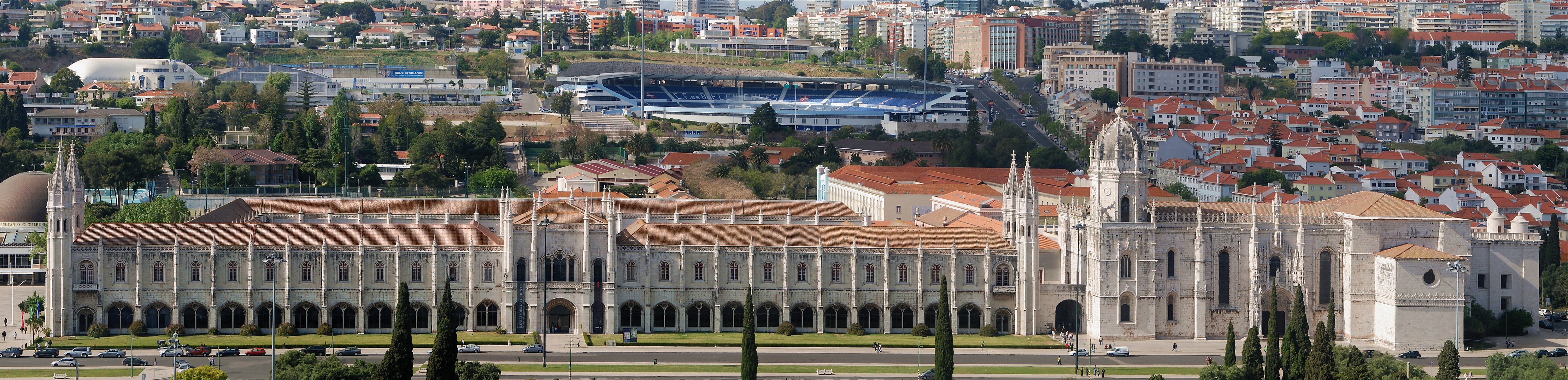 The monastery of Jerónimos, view from the top of Padrão dos Descobrimentos. Lisbon, Portugal.